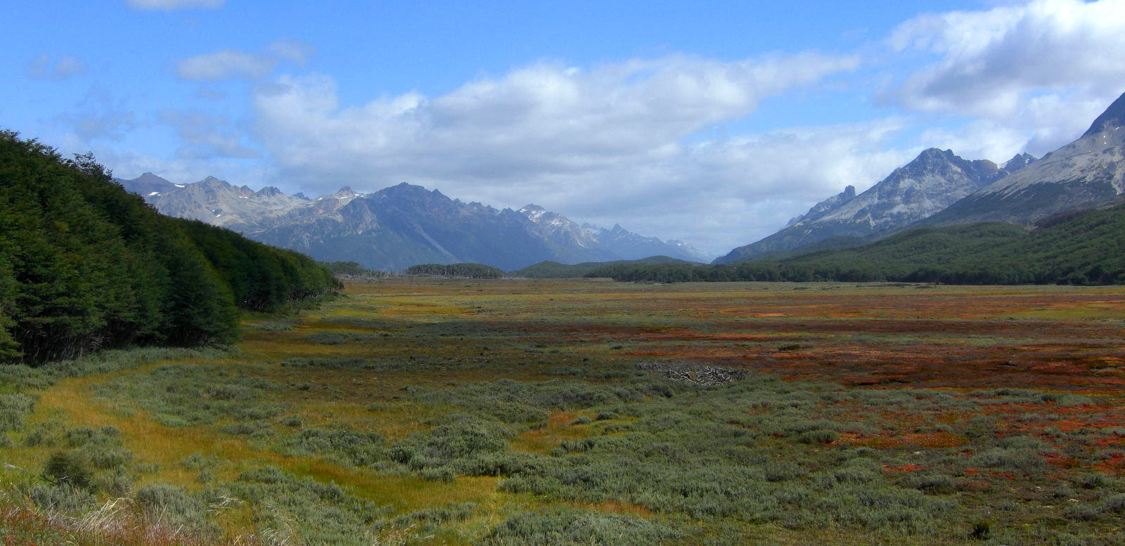 Look at all that lush "turbal" (sphagnum bog) in this lovely valley! The southern end of Tierra del Fuego is quite mountainous with countless spectacular valleys just like this.